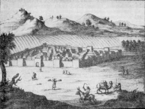 View of Kalgan in 1698 (from a Russian book published that year).